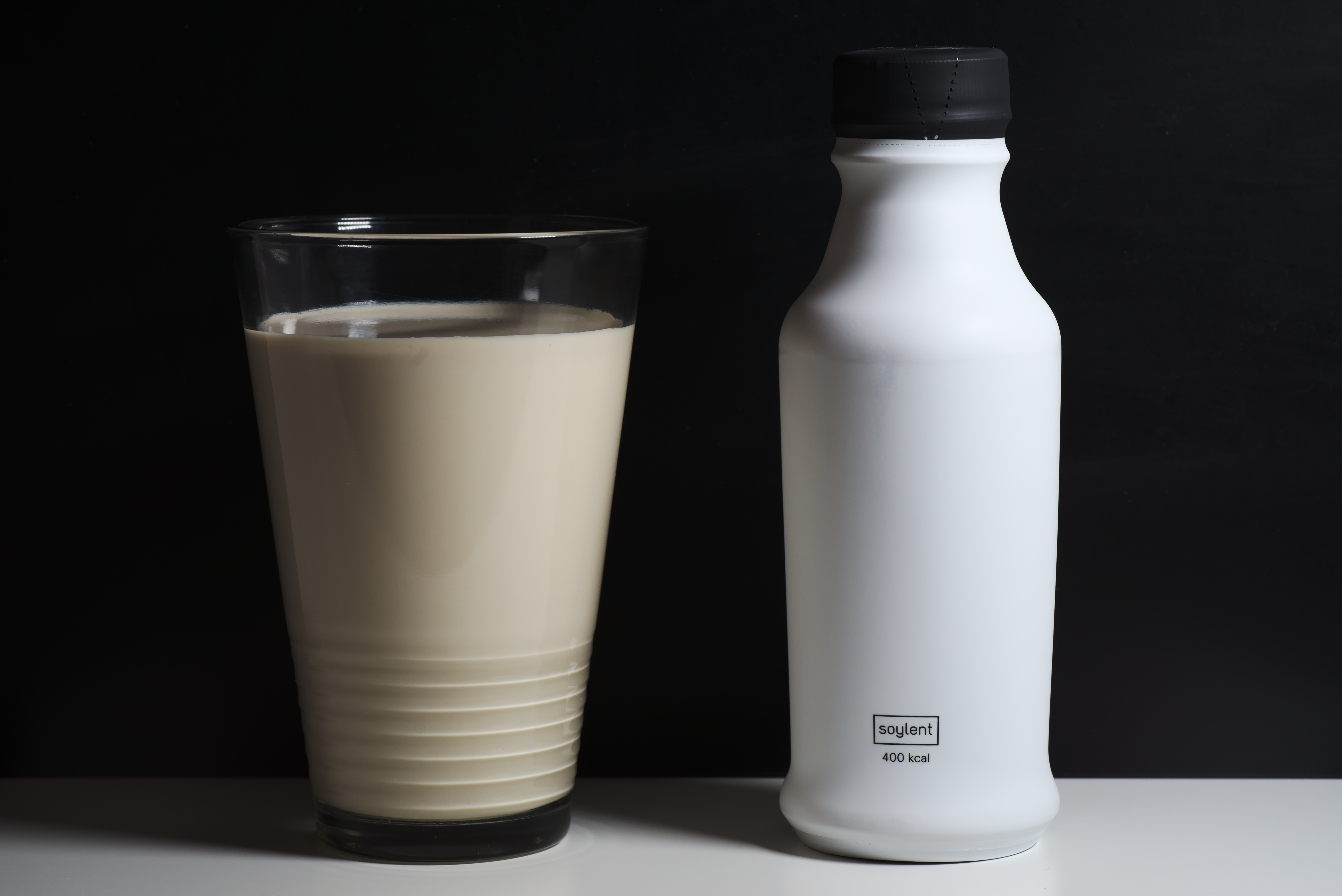 A bottle of Soylent 2.0 and the drink poured out into a glass. In 2016, bottles of Soylent 2.0 began shipping in a matte white bottle instead of glossy white.